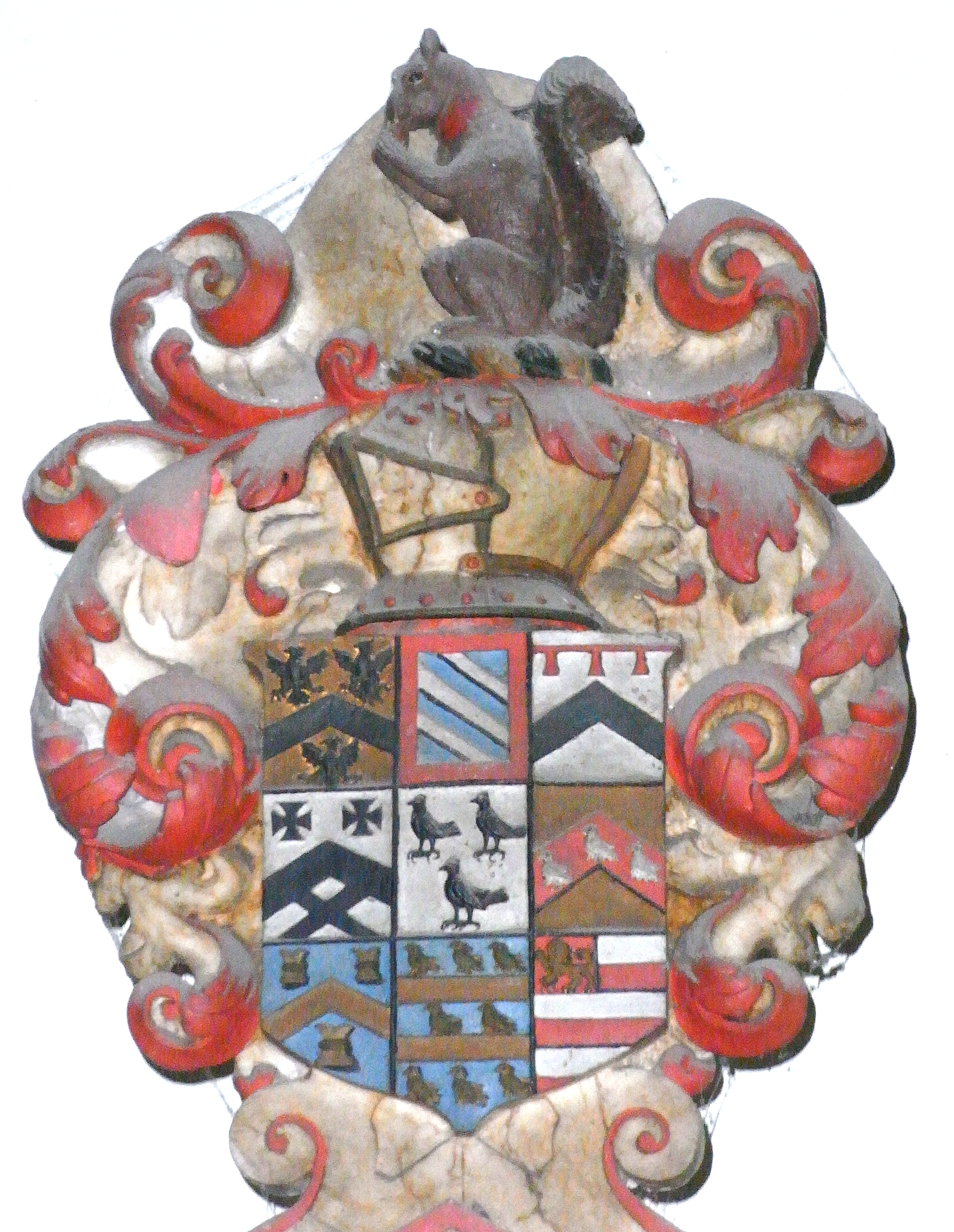 Escutcheon above monument to Sir John Bluett (d.1634) in Holcombe Rogus Church, Devon, showing quarterings of heiresses joined to the Bluett family. The heraldic escutcheon on John Bluett's monument shows 8 quarterings as follows, which demonstrate his ancestry from heraldic heiresses: 1st: Or, a chevron azure between three eagles displayed of the last (Bluett) 2nd: Azure, three bendlets argent each close-cottised in base sable a bordure gules 3rd: Argent, a chevron sable a label of three points gules 4th: Argent, a chevron between in chief three crosses pattées in base a saltire sable 5th: Argent, three ravens/choughs sable/proper 6th: Or, on a chevron gules three martlets or (Chiselden of Holcombe Rogus)[1] The martlets are shown here argent. 7th: Azure, a chevron argent between three chess-rooks or (Rogus of Holcombe);[2] the chevron is shown here or. 8th: Azure, two bars between nine martlets argent, 3,3,2,1 (shown here as Azure, two bars between eight martlets or, 3,2,3) Tantifer (alias Tatifer, Tantifer, Taundifer, Fattifer[3]) of Anke, (modern "Aunk"[4]) Clyst Hydon,[5] an heiress of Chesilden 9th: Barry of six argent and gules, on a canton of the second a lion passant or (Lancaster of Milverton,[6] the family of Bluett's mother)